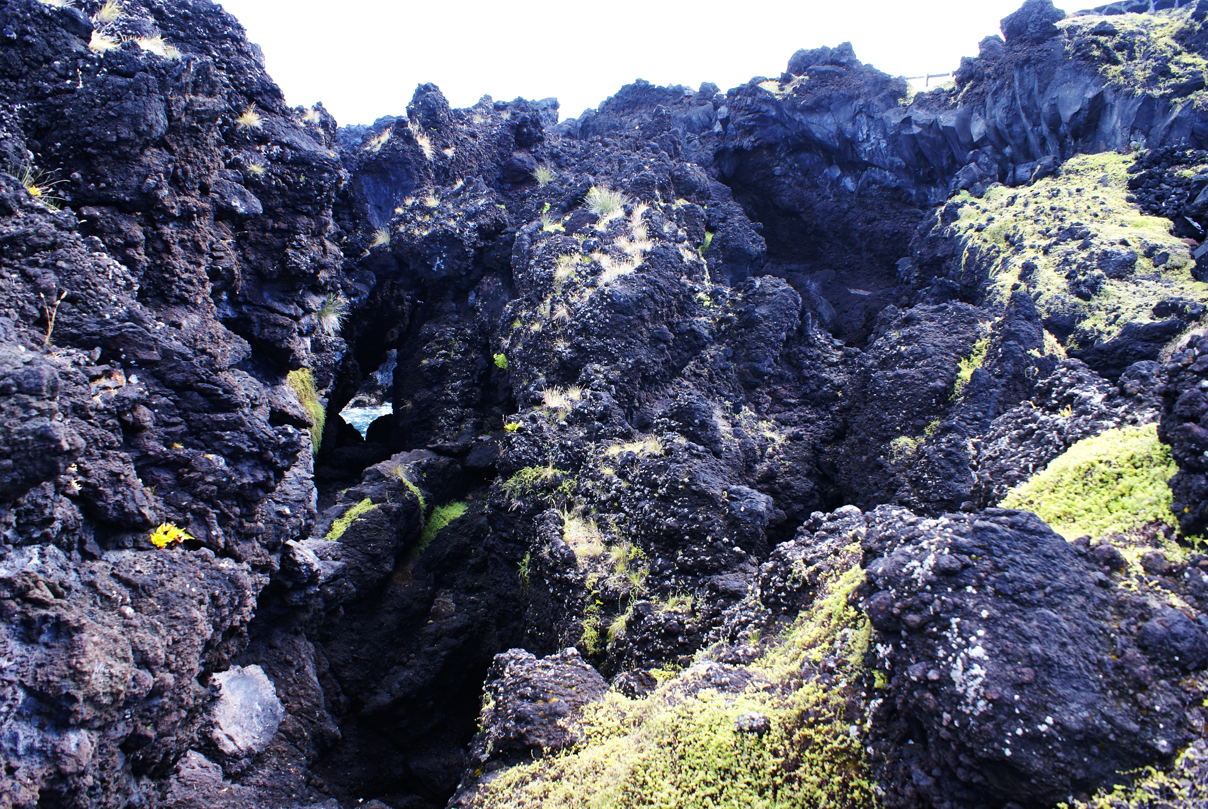 Arcos do Cachorro, aspecto das rochas costeiras, Bandeiras, concelho da Madalena, ilha do Pico, Açores